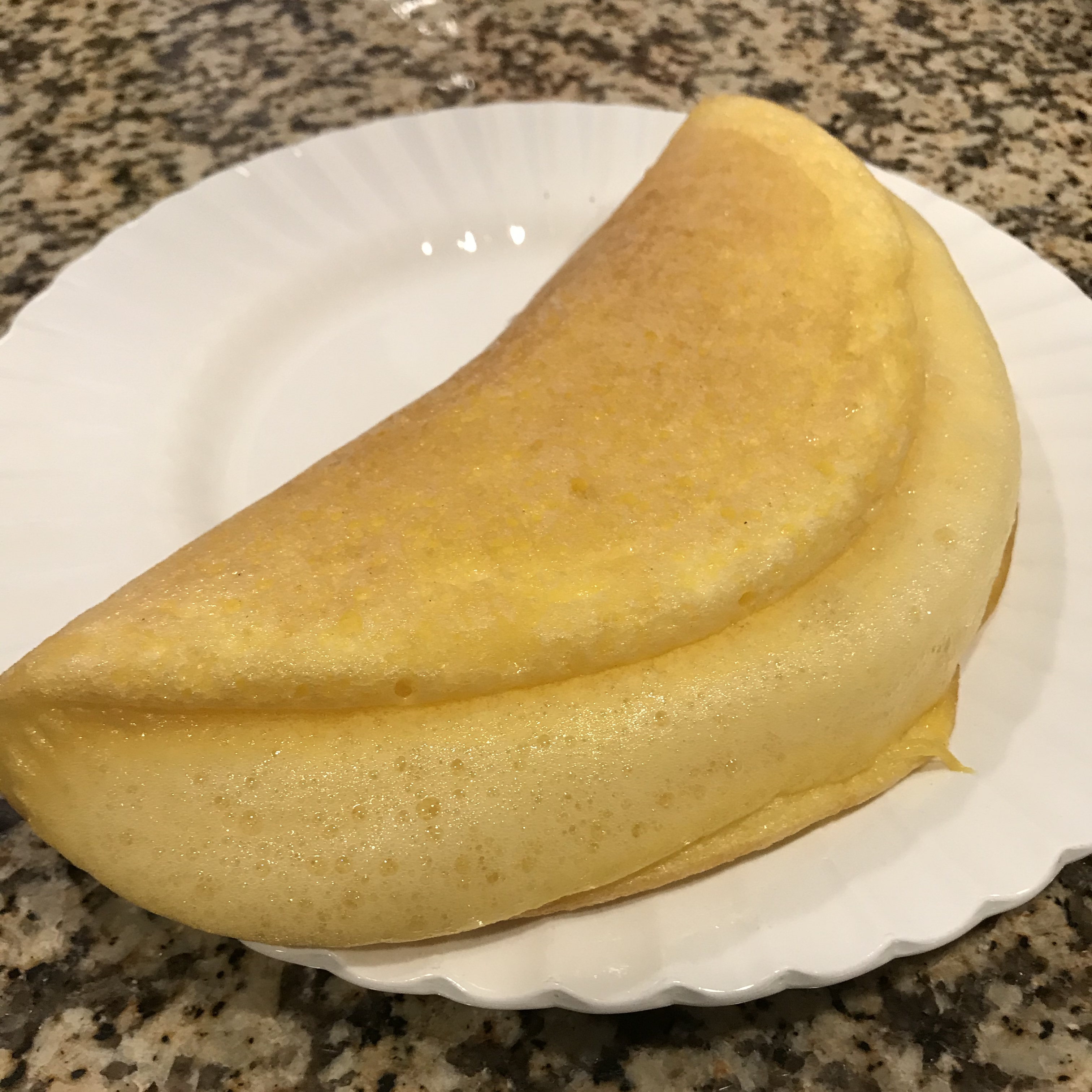 3-egg souffle omelet in the style of Omelet de la Mere Poulard, homemade